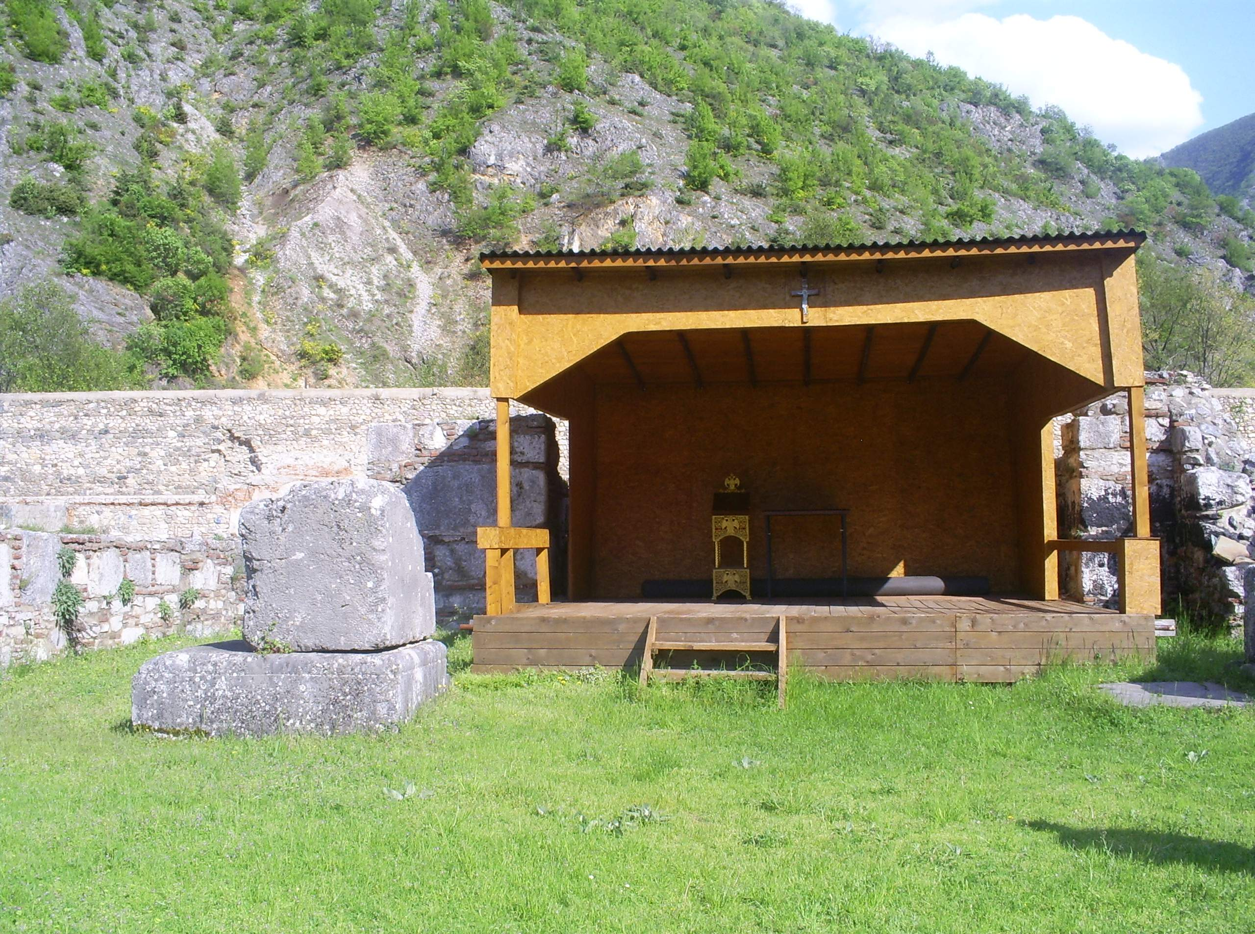 Wooden oltar in remain of main church in Sveti Arhangeli near Prizren, Serbia.